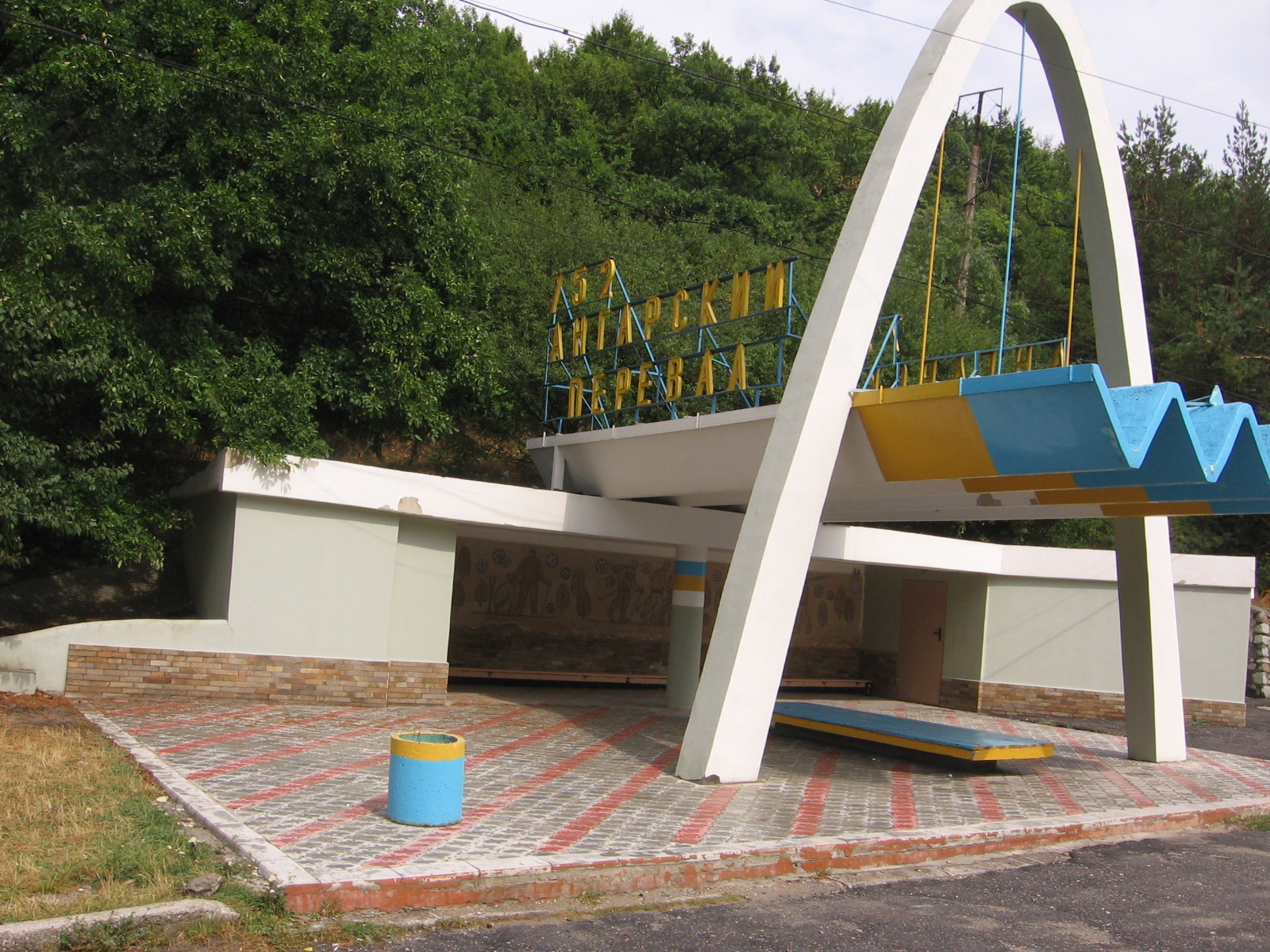 Angarsky Pass (752 m) trolleybus shelter in Crimea, Ukraine. Note mosaic on the wall of the shelter. Picture taken by Cmapm through window of 52 Simferopol — Alushta — Yalta trolleybus.